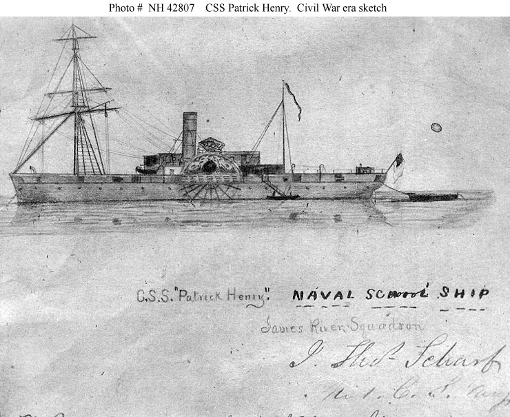 CSS Patrick Henry (1861-1865) Photographically reproduced sketch of the ship as the Confederate States Navy's school ship, with the James River Squadron, 1863-65. The original is inscribed with the name of Midshipman John Thomas Scharf, CSN, who served in Patrick Henry in 1863 and again in 1864-65.